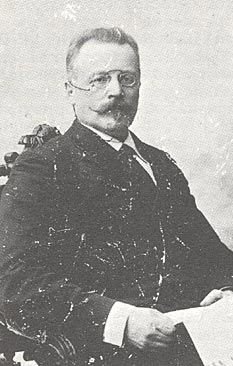 Finnish teacher and writer Emil Wichmann (1856–1938).